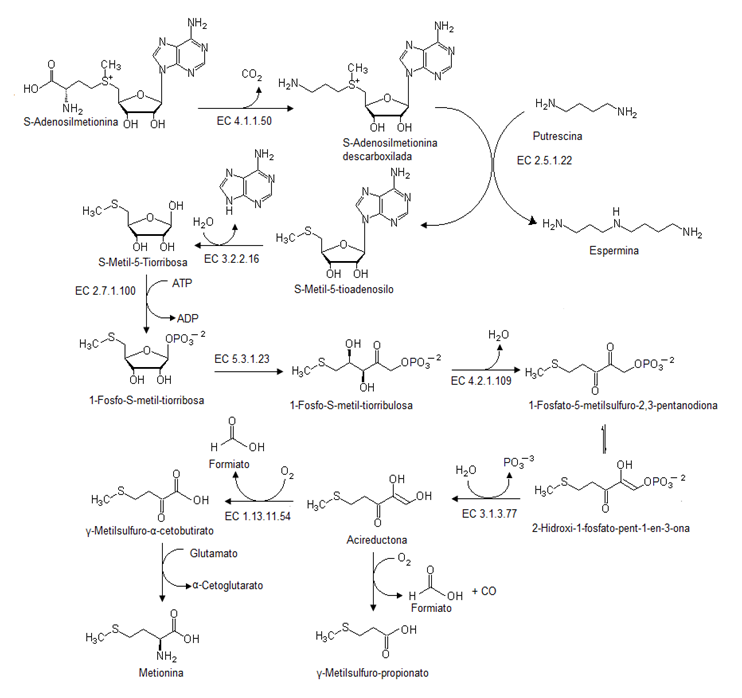 Salvage methionine pathway